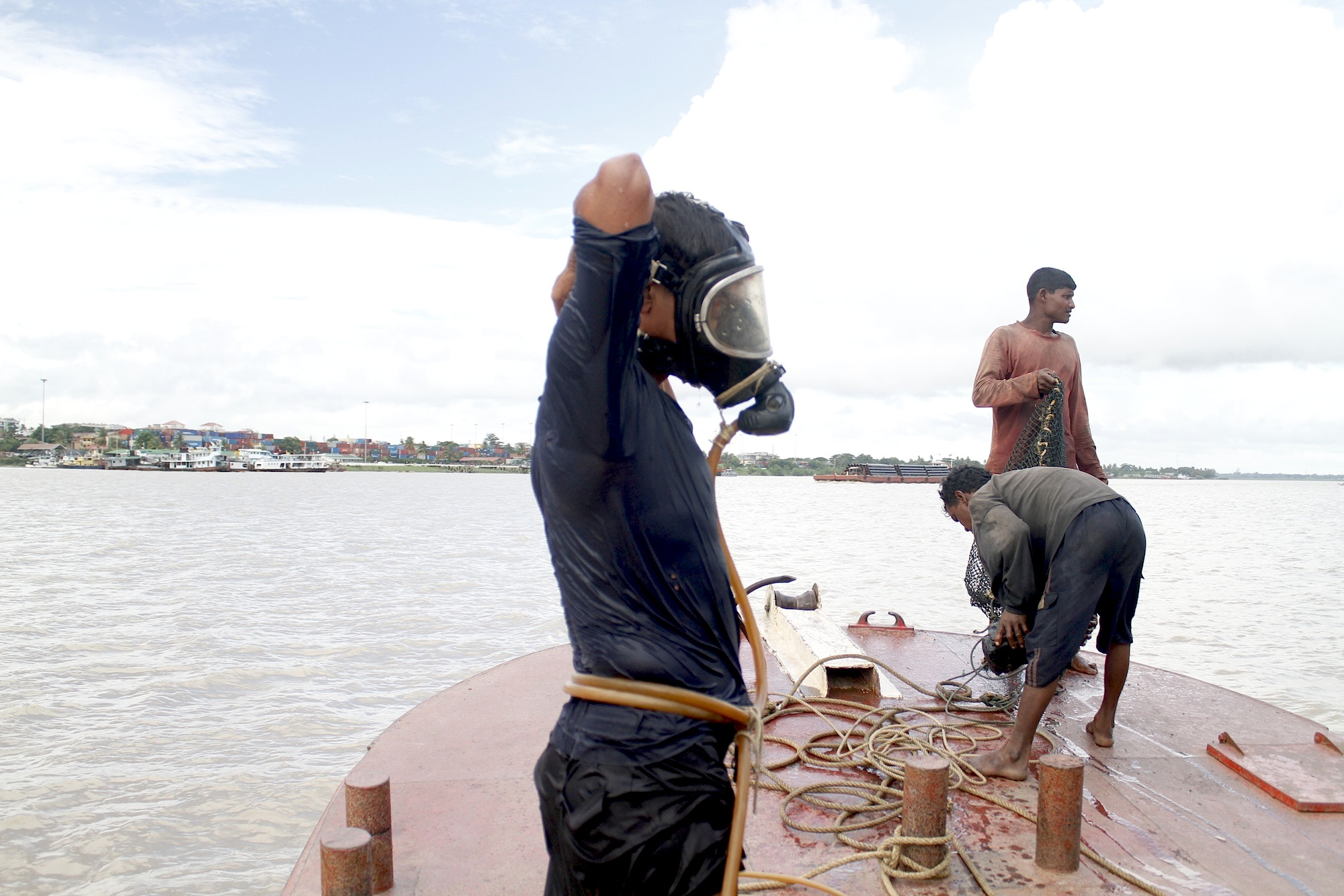 Coal divers prepare to dive under Yangon River in Yangon, Myanmar on 7 June 2011.မြန်မာဘာသာ: ကျောက်မီးသွေး ရှာသူ ရေငုပ်သမားများ ရန်ကုန်မြစ်အတွင်း ရေငုပ်ရန် ပြင်ဆင်နေသည်ကို ရန်ကုန်မြို့၊ မြန်မာနိုင်ငံ တွင် ဇွန်လ ၇ ရက်၊ ၂၀၁၁ က တွေ့မြင်ရစဉ်